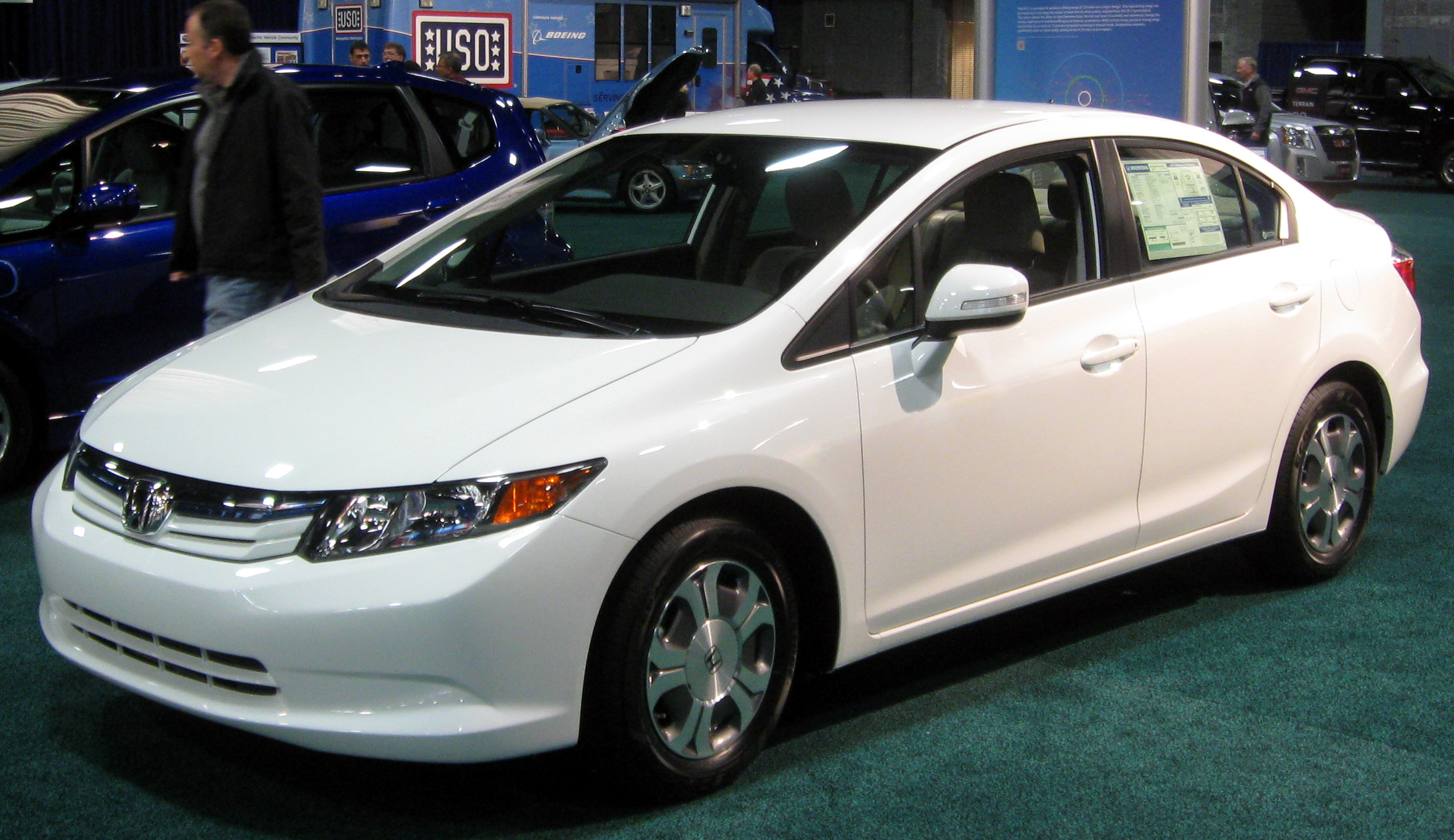 2012 Honda Civic Hybrid photographed in Washington, D.C., USA.